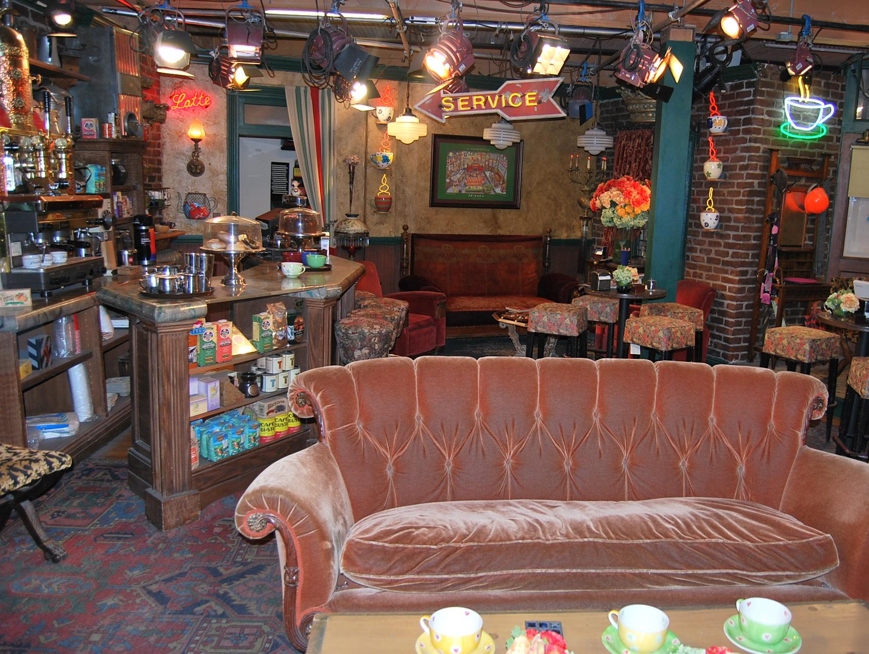 Set of Friends at the Warner Brothers Studio.